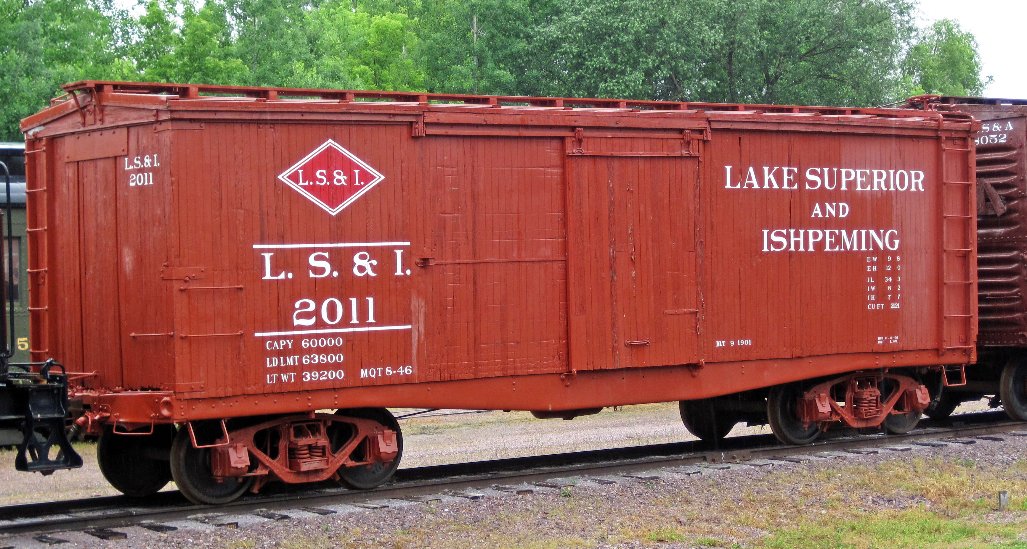 This box car was built in 1901 for freight use by the Marquette & South Eastern Railroad in Michigan's Upper Peninsula. That railroad was later merged into the Lake Superior & Ishpeming Railroad. Its use as a freight car ceased in the 1960s. This car is now part of the Mid-Continent Railway Museum collection in the town of North Freedom, Wisconsin. More info.